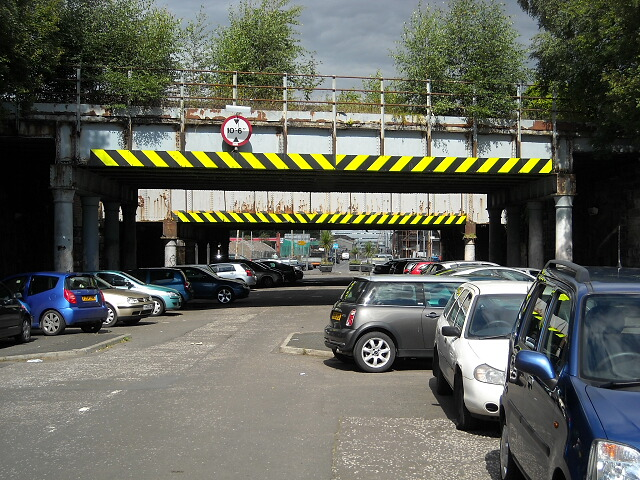 Railway Bridges Over West Street Low railway bridges over West Street. The road is now used as a car park for the nearby underground station. Despite the amount of shrubbery on the bridge it is still occasionally used by trains.